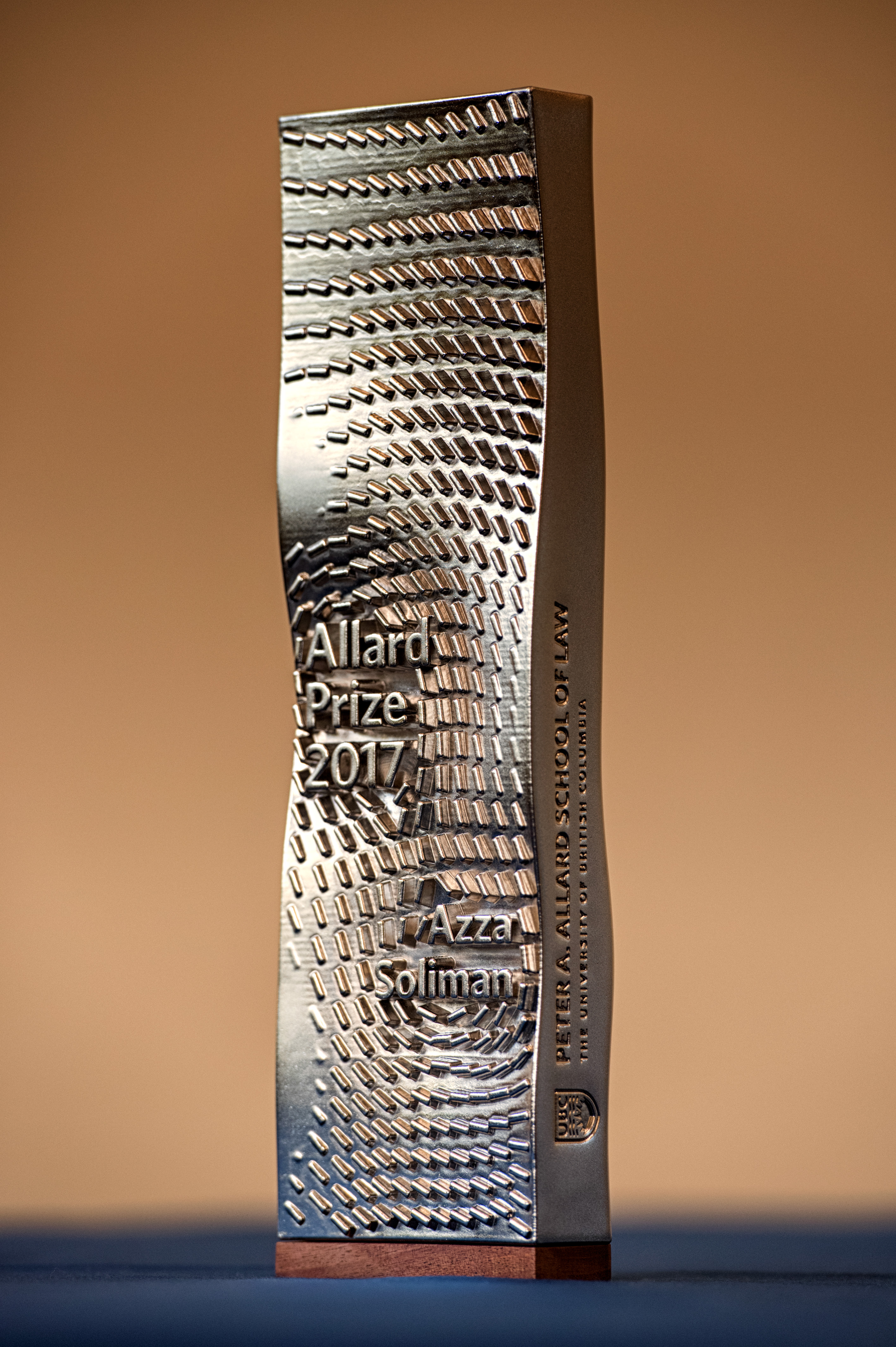 The Allard Prize award presented to honourable mention Azza Soliman in 2017. Creative Commons Attribution-Share Alike 4.0 International